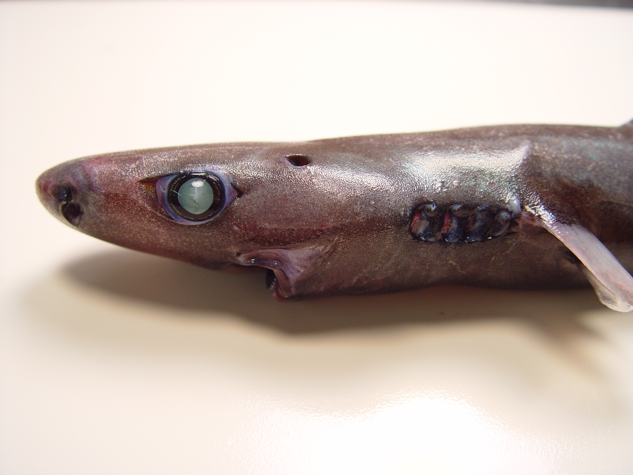 Smooth lanternshark (Etmopterus pusillus) from the Gulf of Mexico